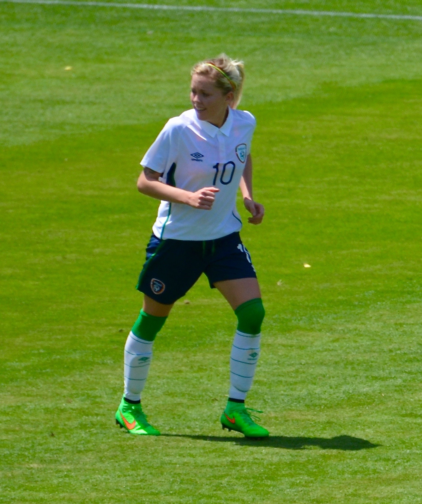 Denise O'Sullivan playing for the Republic of Ireland in San Jose, California on 10 May 2015.